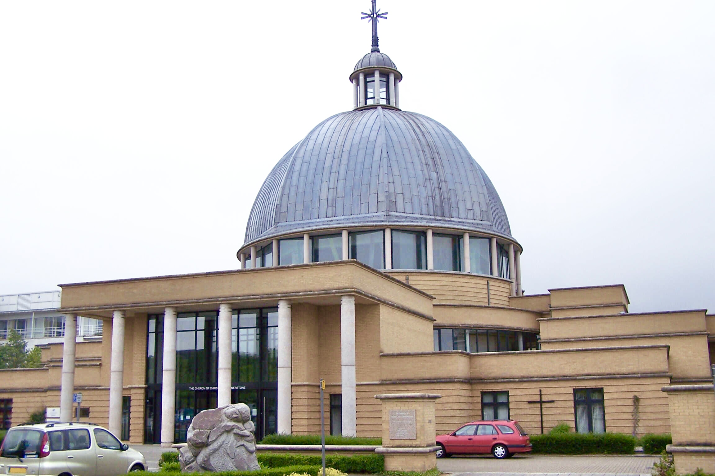 The ecumenical Church of Christ the Cornerstone, Saxon Gate, Milton Keynes, seen from the north